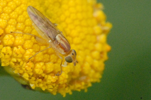 Picture taken in Commanster, Belgian High Ardennes . Species: male Meromyza saltatrix